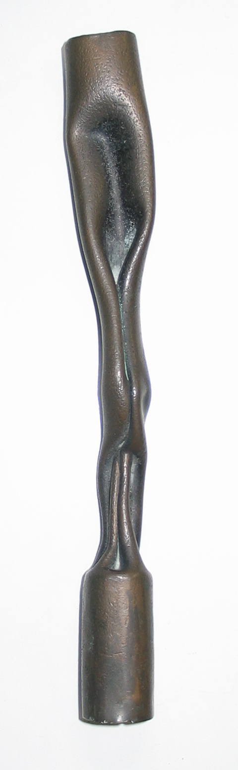 A photograph of a section of the crushed lightning rod first described by J.A. Pollock and S. Barraclough, 1905, Proc. R. Soc. New South Wales 39, 131. They correctly described the crushing mechanism as a result of the interaction of the large current flowing in the conductor with its own magnetic field.